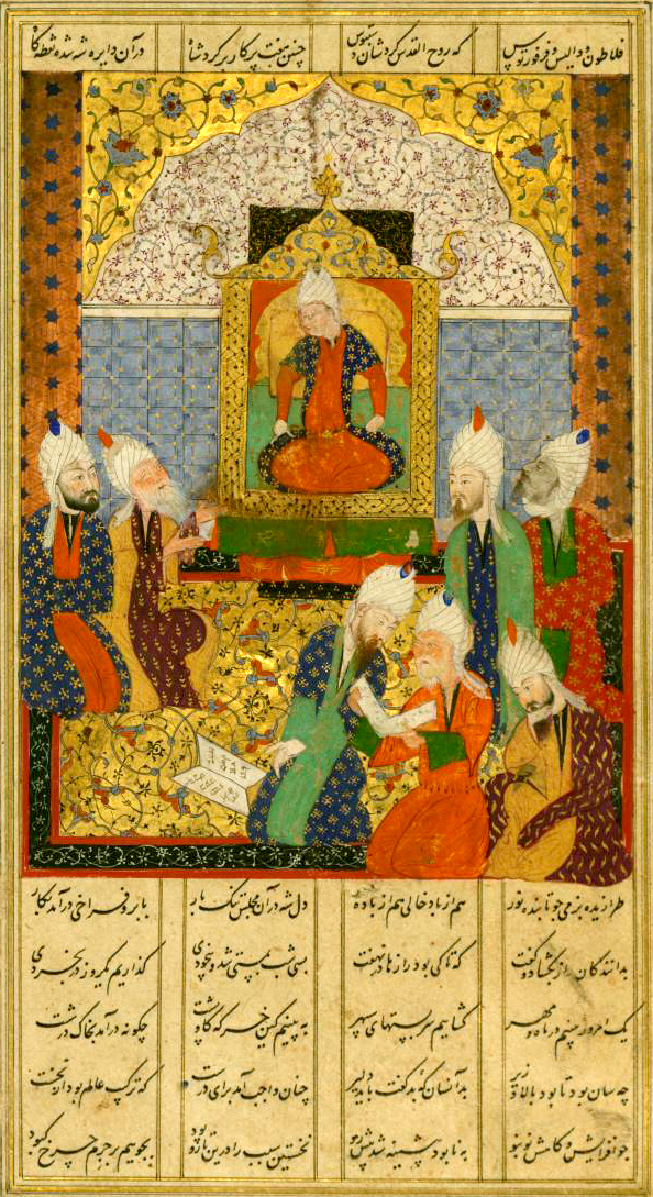 Nizami Ganjavi (Azerbaijani, d. 605 AH/AD 1209). 'Iskandar and the Seven Philosophers,' 922 AH/AD 1516. ink, paint and gold on laid non-European paper. Walters Art Museum (W.609.372A): Acquired by Henry Walters.